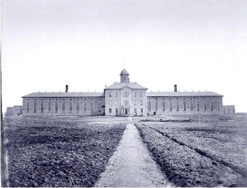 The Toronto Central Prison, taken sometime before 1920 when the main building was demolished.